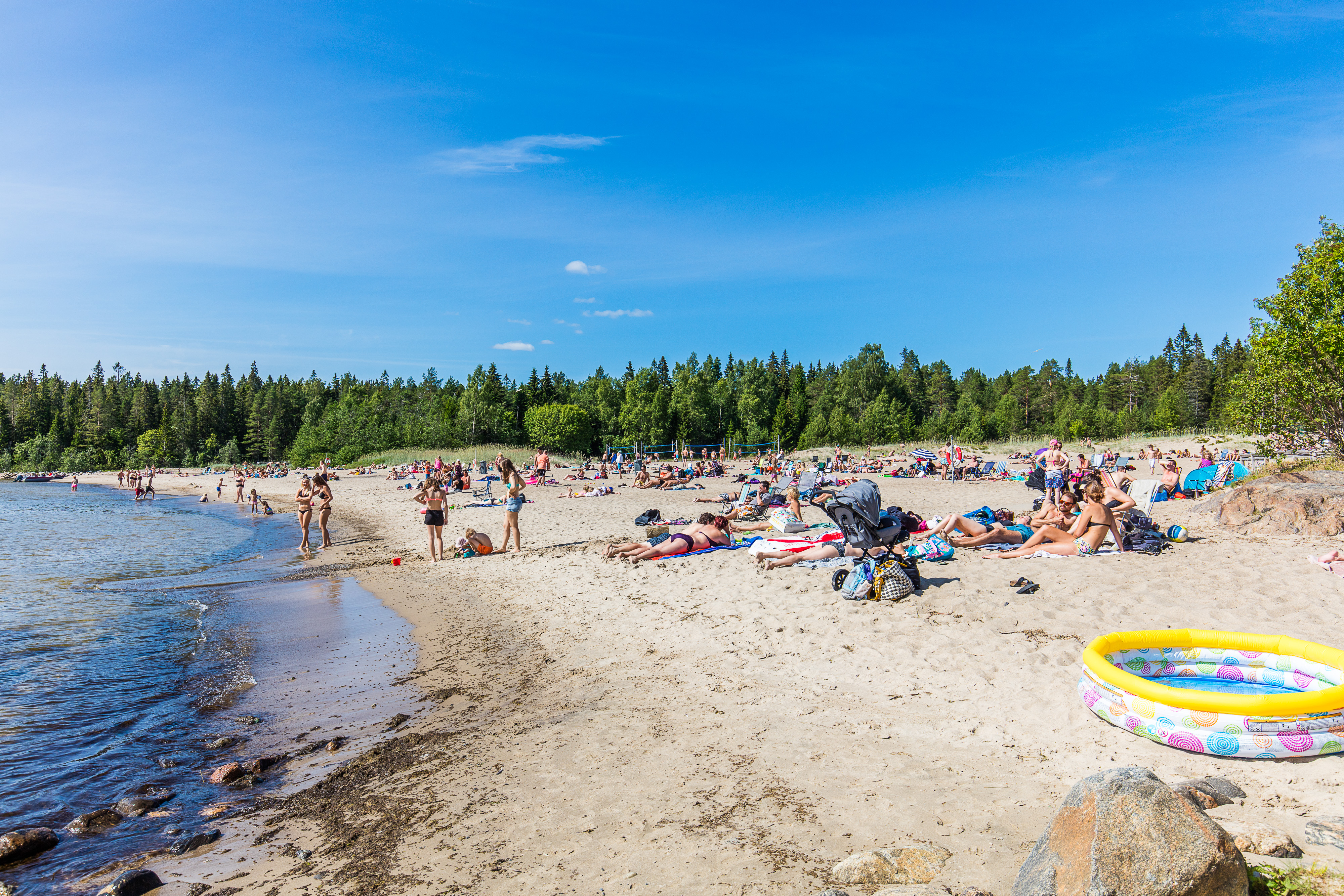 Bettnessand is a sea bath, som 20 km south from Umeå.